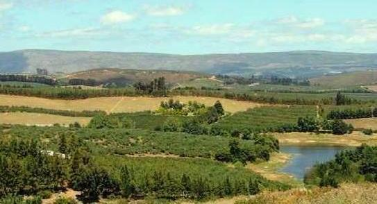 Elgin Valley. Western Cape. South Africa.